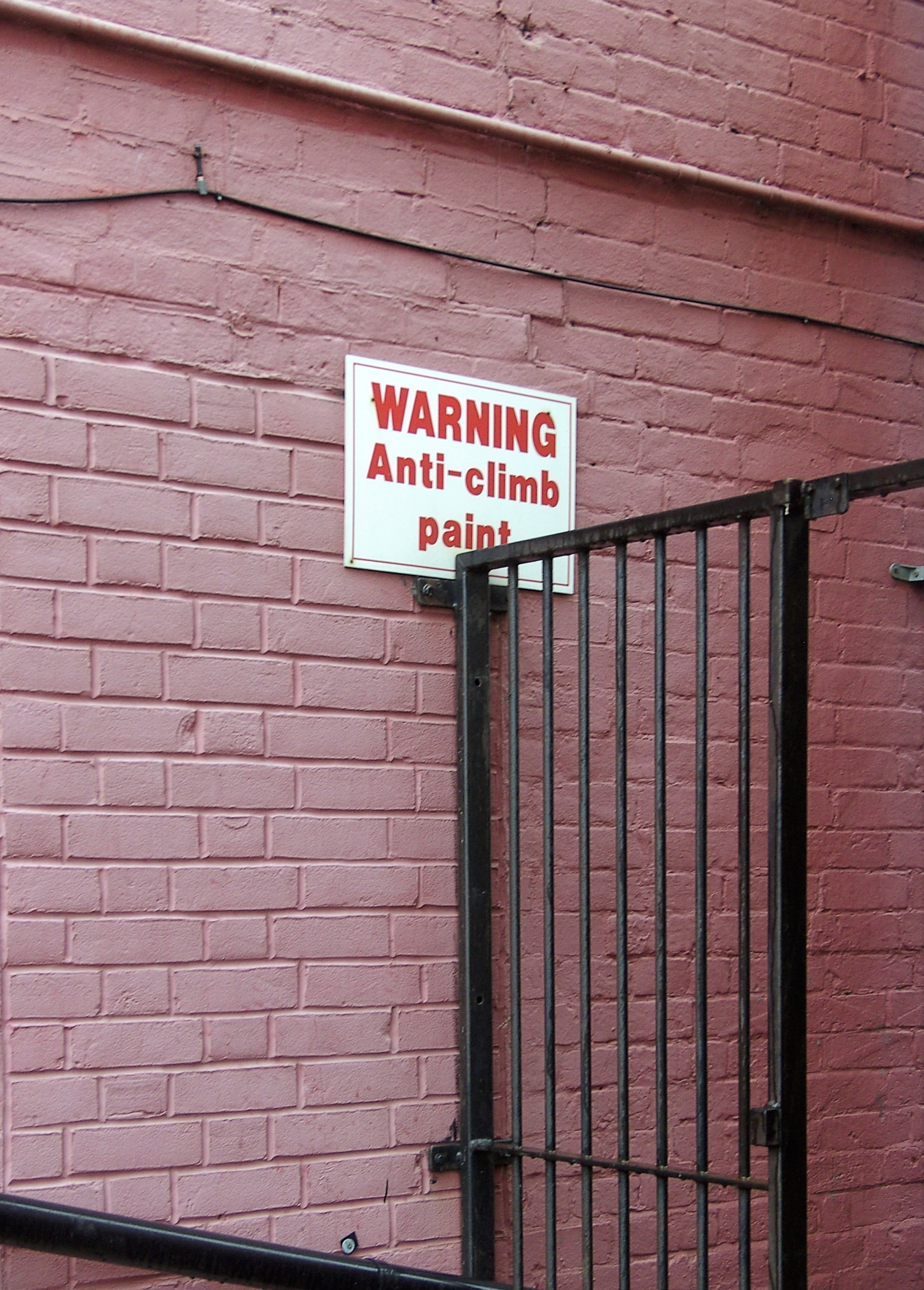 "Warning - Anti-climbing paint" - a warning sign in the United Kingdom.